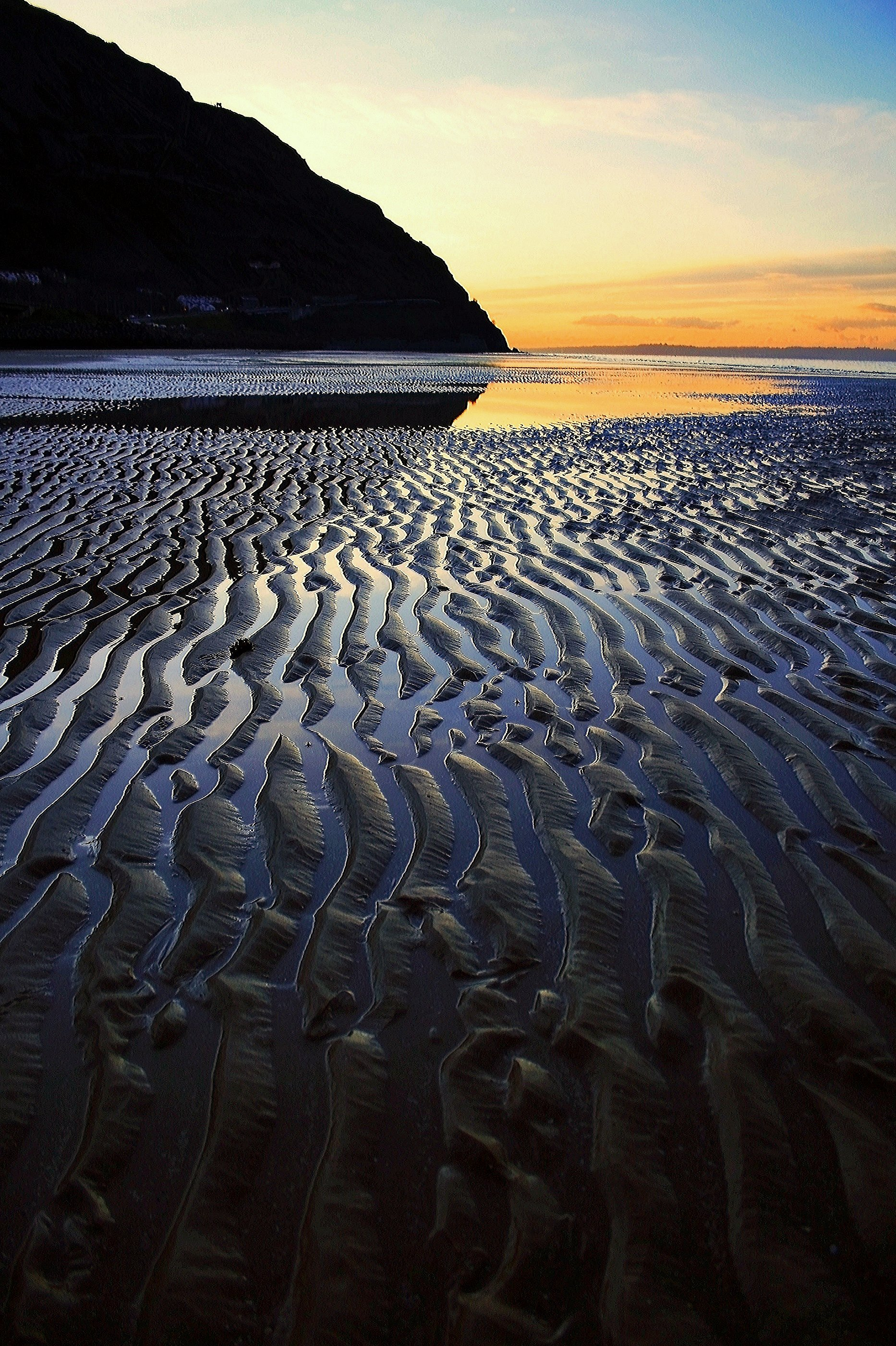 Penmaenmawr beach this afternoon. The A55 expressway passes by but the stillness and peace of the beach is the overpowering influence here. The cold snap we are having results in such clear air.